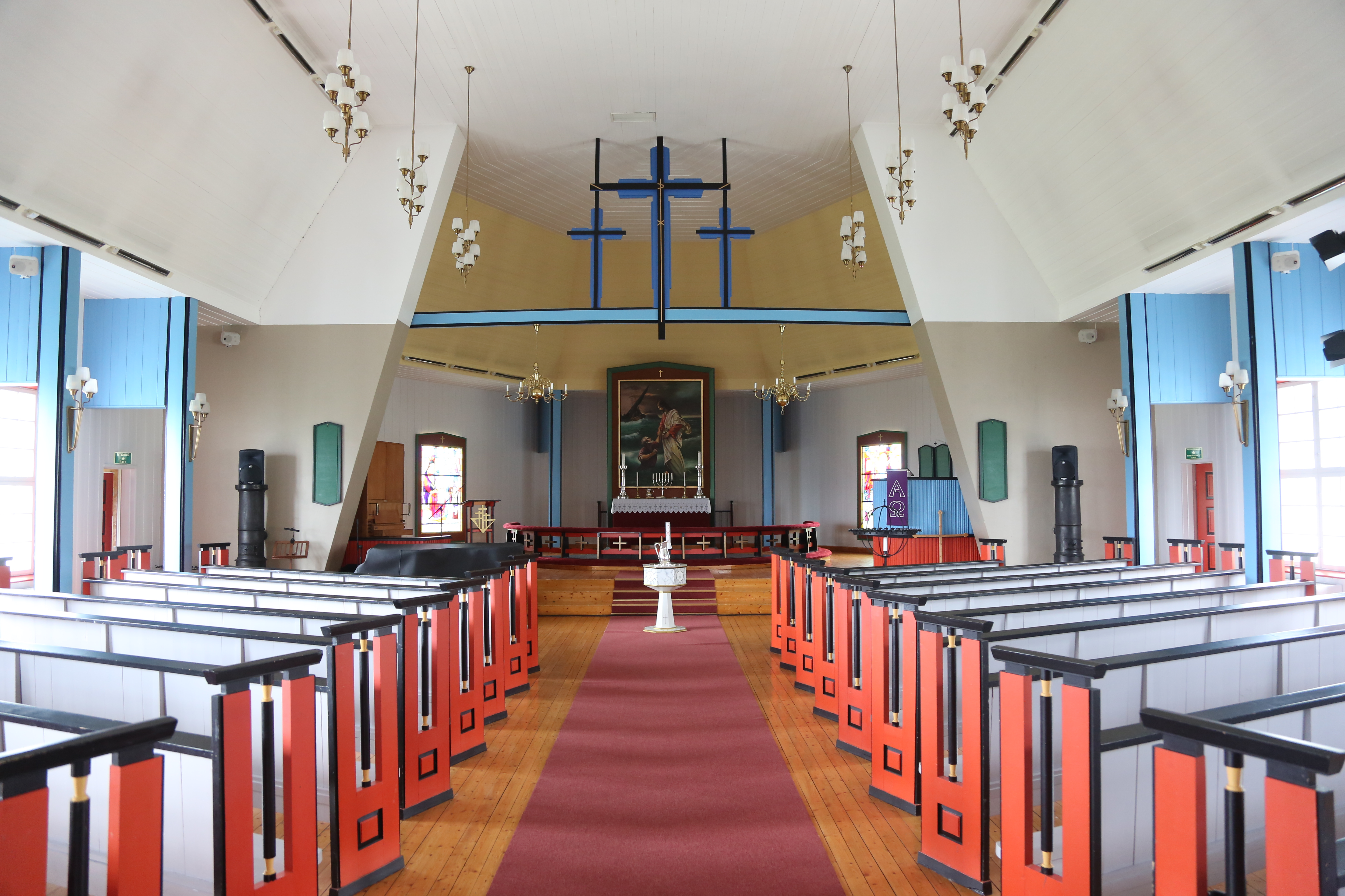 Hasvik kirke in the village Hasvik, Hasvik kommune, Finnmark